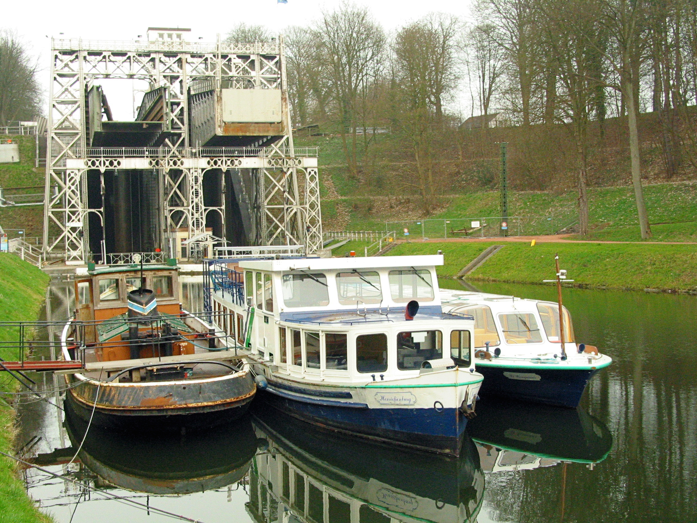 Strépy-Bracquegnies (Belgium), the hydraulic ship elevator number 3.